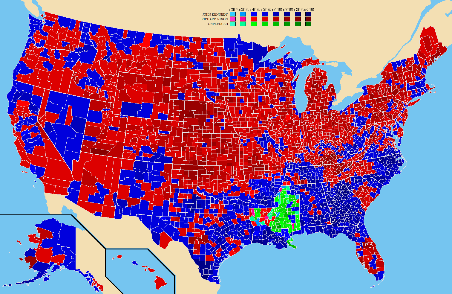 Map showing the results by county of the 1960 United States presidential election specifically identifying the percentage received by the winning candidate in each county.